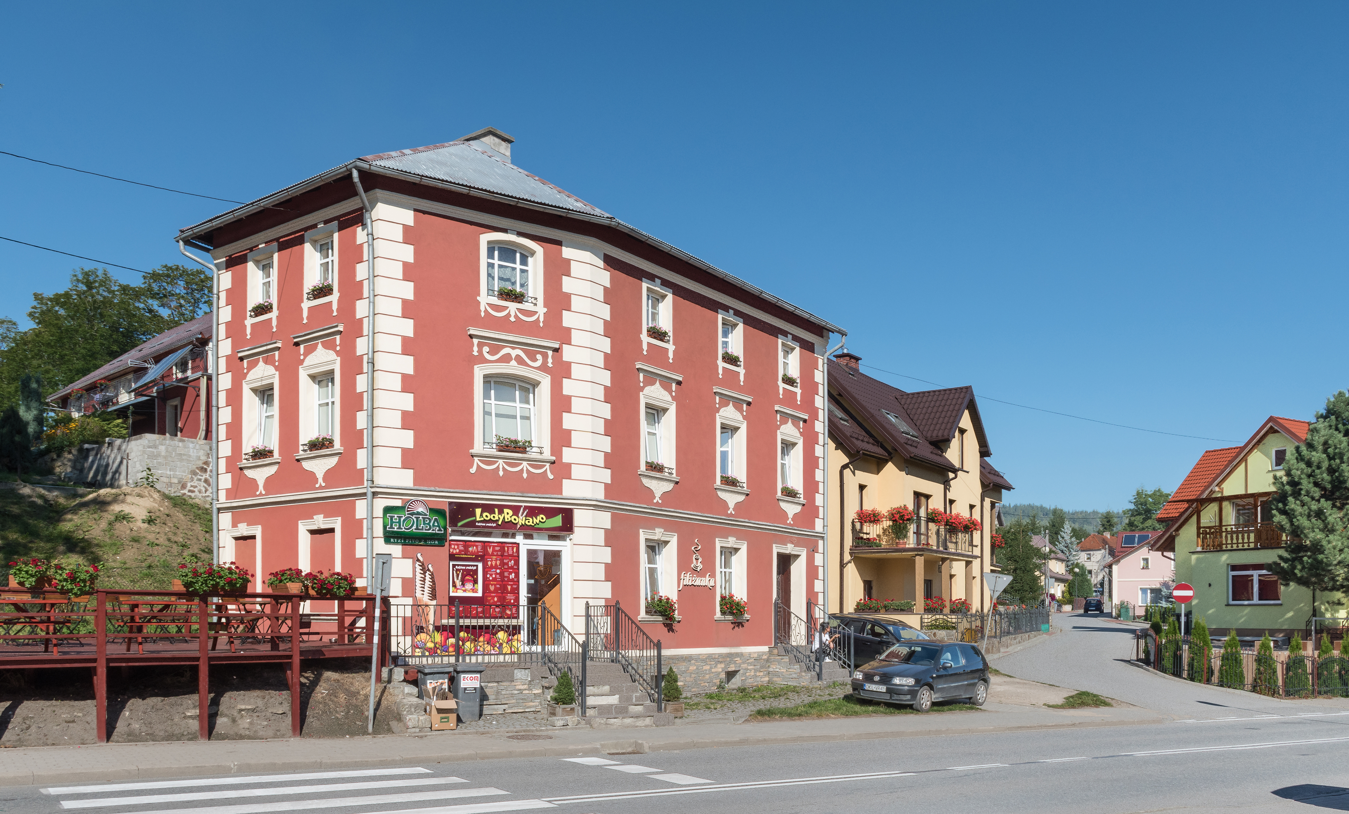 Kościuszki Street in Stronie Śląskie